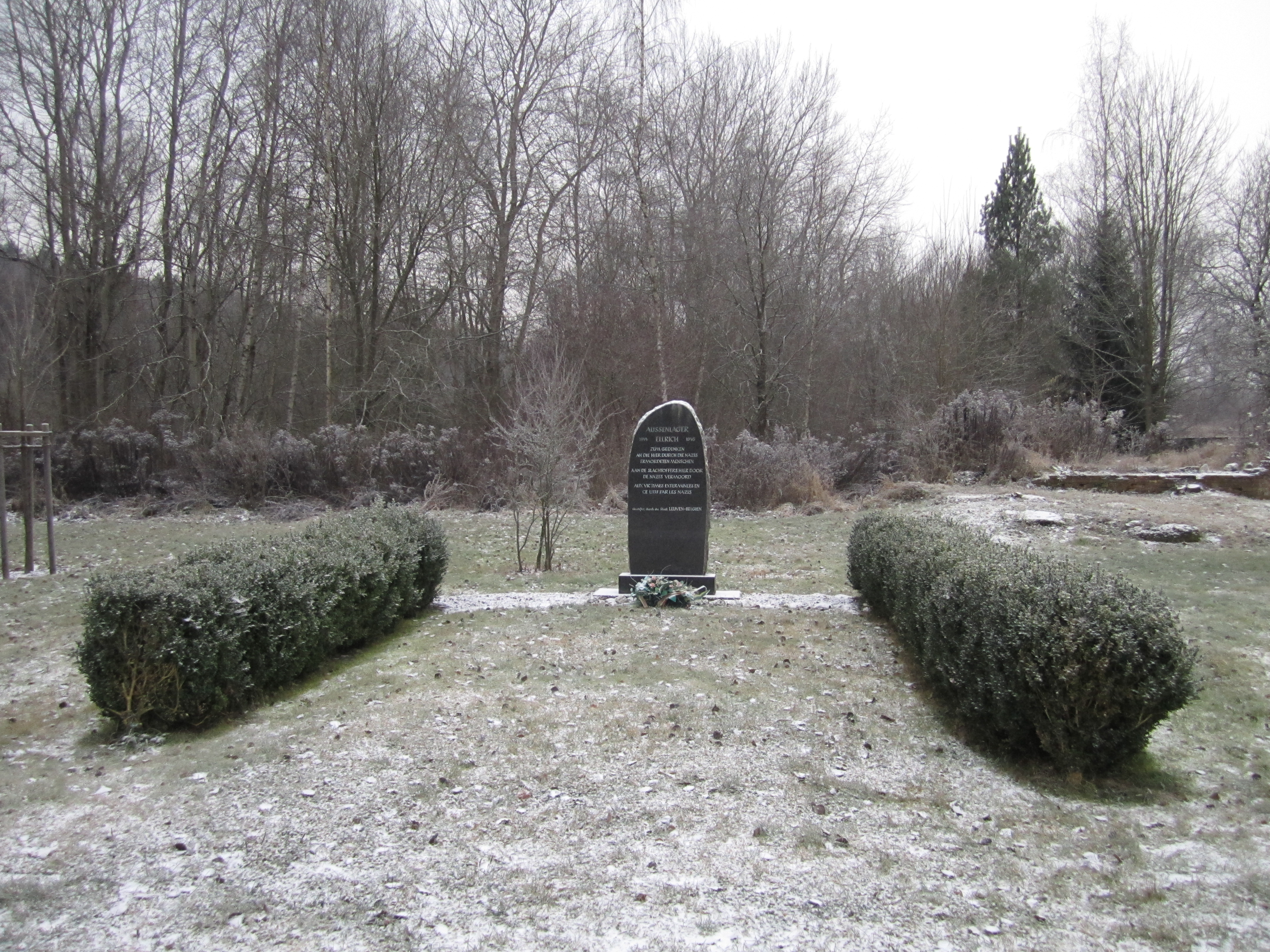 Memorial for slaughtered KZ inmates in Ellrich, Thuringia, Germany. Donated by the city of Leuven, Belgium.